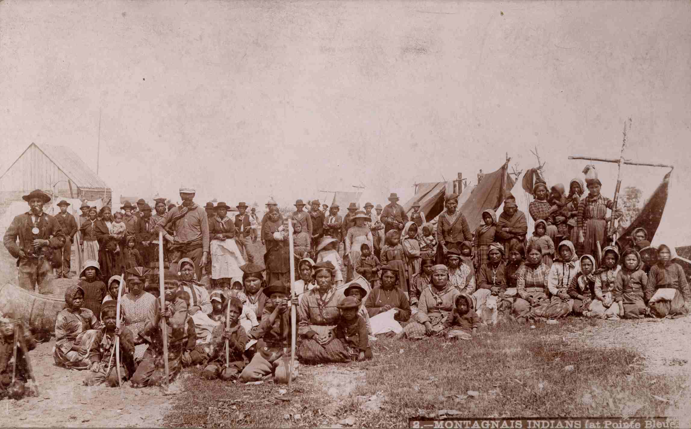 Montagnais Indians at Pointe Bleue